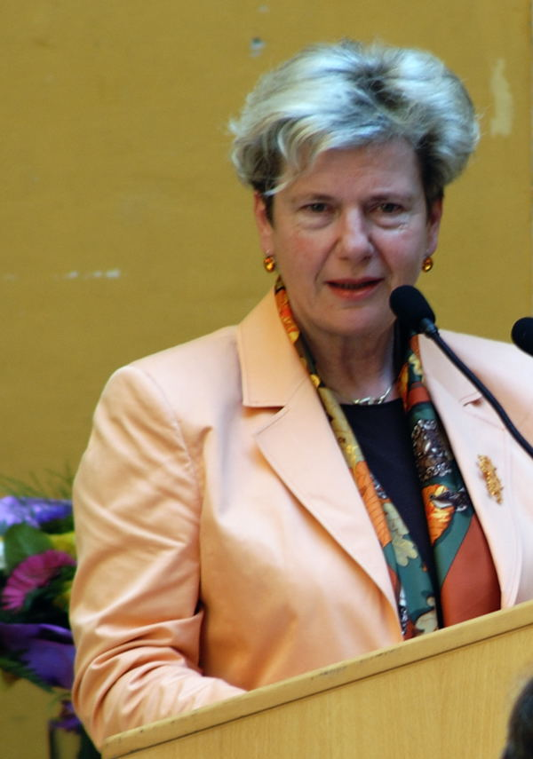 Waltraud Klasnic, delivering a speech